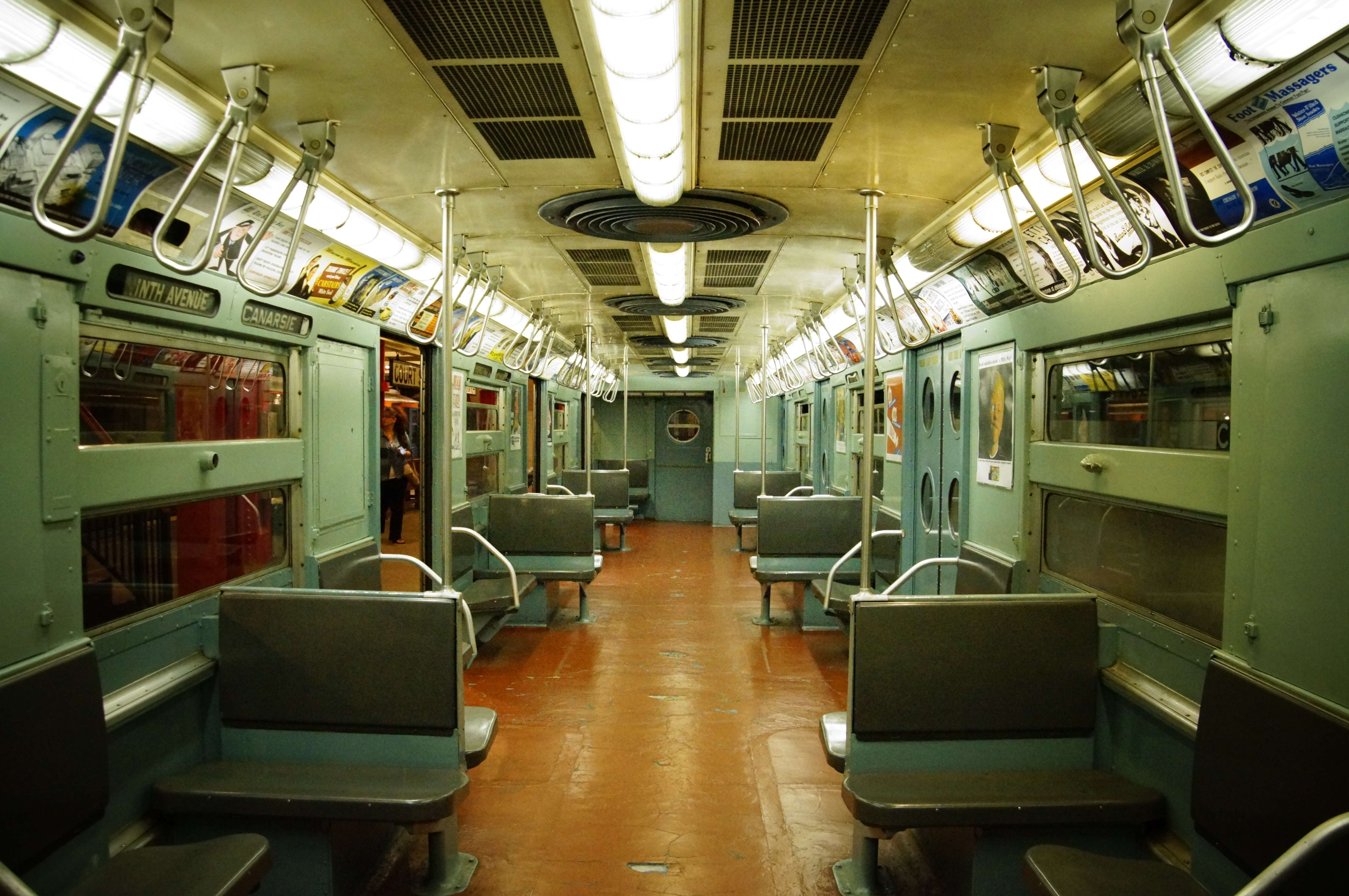 A view of the interior of MTA NYC R11/R34 8013 at the NY Transit Museum.